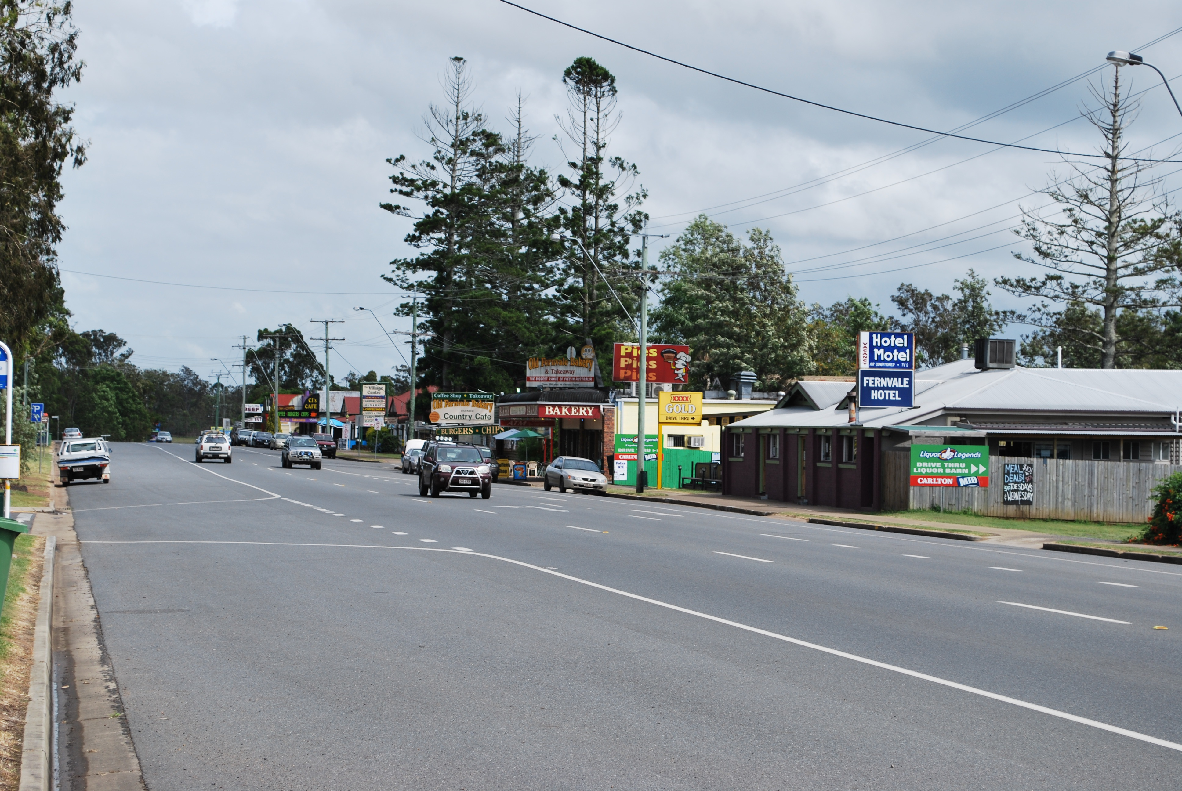 Main street of Fernvale, Queensland